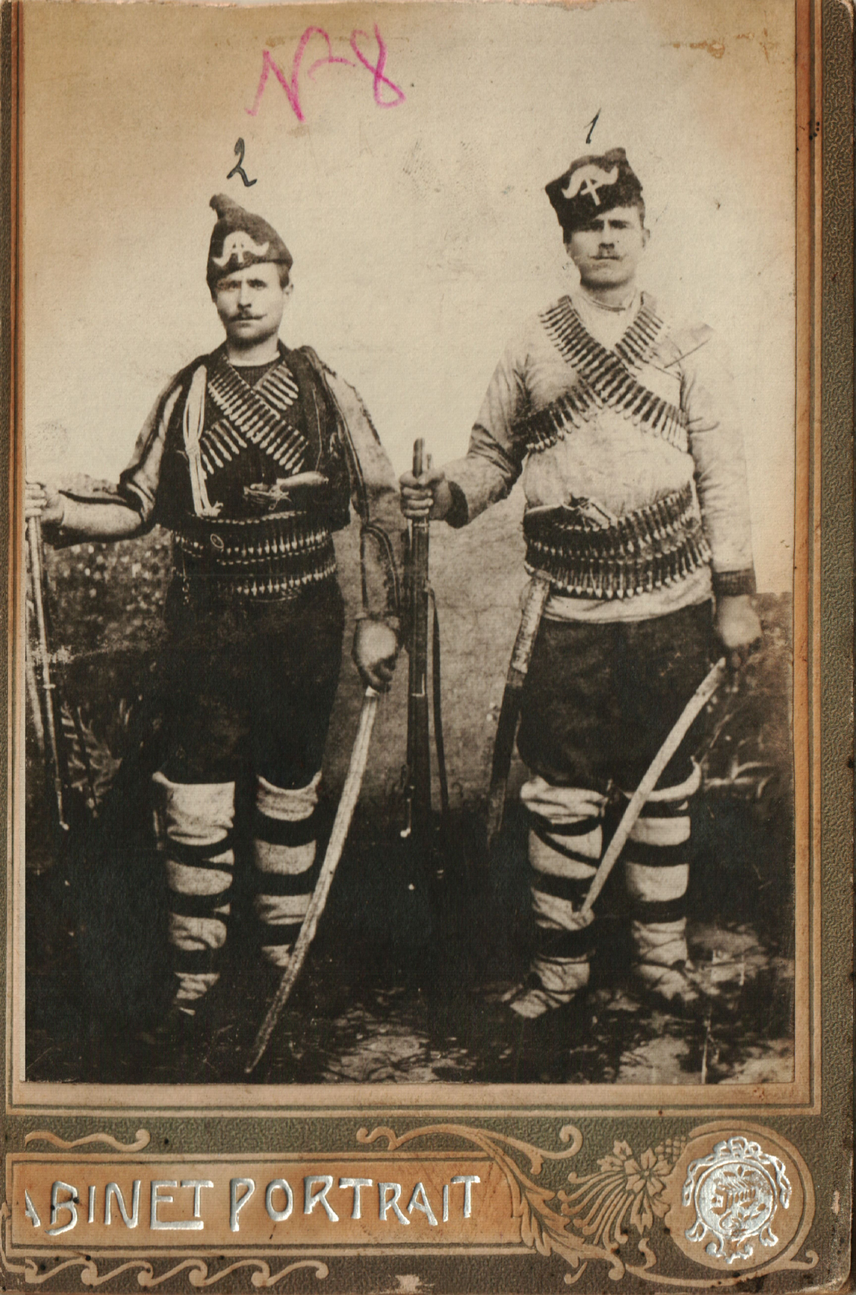 Tane Lerinski and Petar Kostov Salashki